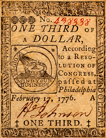 Continental Currency 1/3-Dollar, Obverse Transcription: No. 438338 ONE THIRD OF A DOLLAR, According to a RESO-LUTION OF CONGRESS, paſſed at Philadelphia February 17, 1776. A ‡ ONE THIRD. ‡